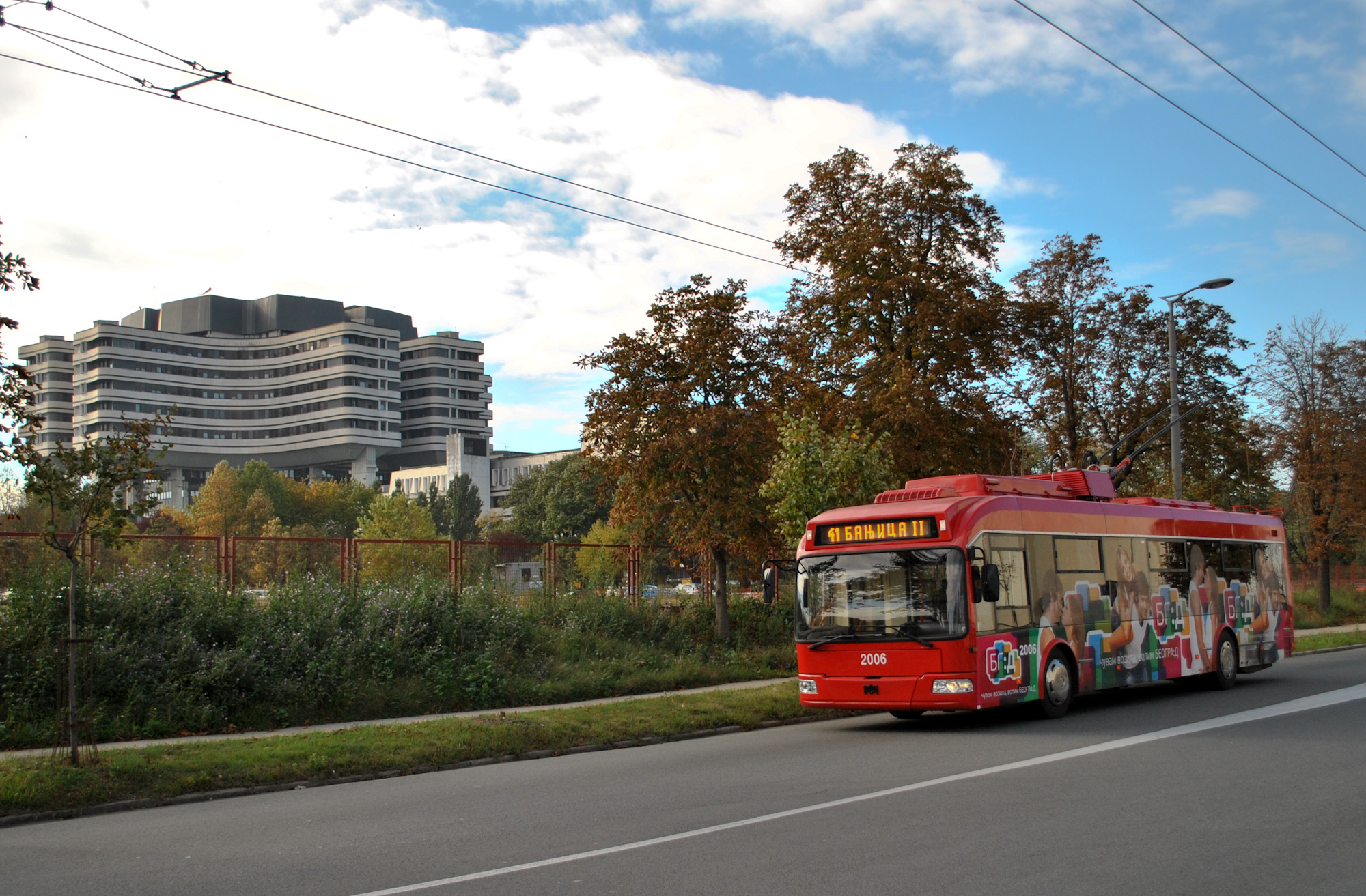 Military Medical Academy and trolleybus